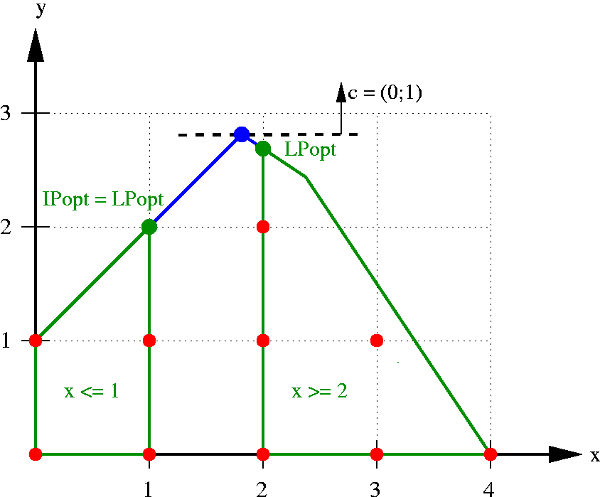 Polytopes obtained by branching on variable x while solving the integer linear program max { y ∣ − x + y ≤ 1 ∧ 3 x + 2 y ≤ 12 ∧ 2 x + 3 y ≤ 12 ∧ x , y ∈ Z + } {\displaystyle \max\{y\;\mid \;-x+y\leq 1\;\land \;3x+2y\leq 12\;\land \;2x+3y\leq 12\;\land \;x,y\in \mathbb {Z} _{+}\ .